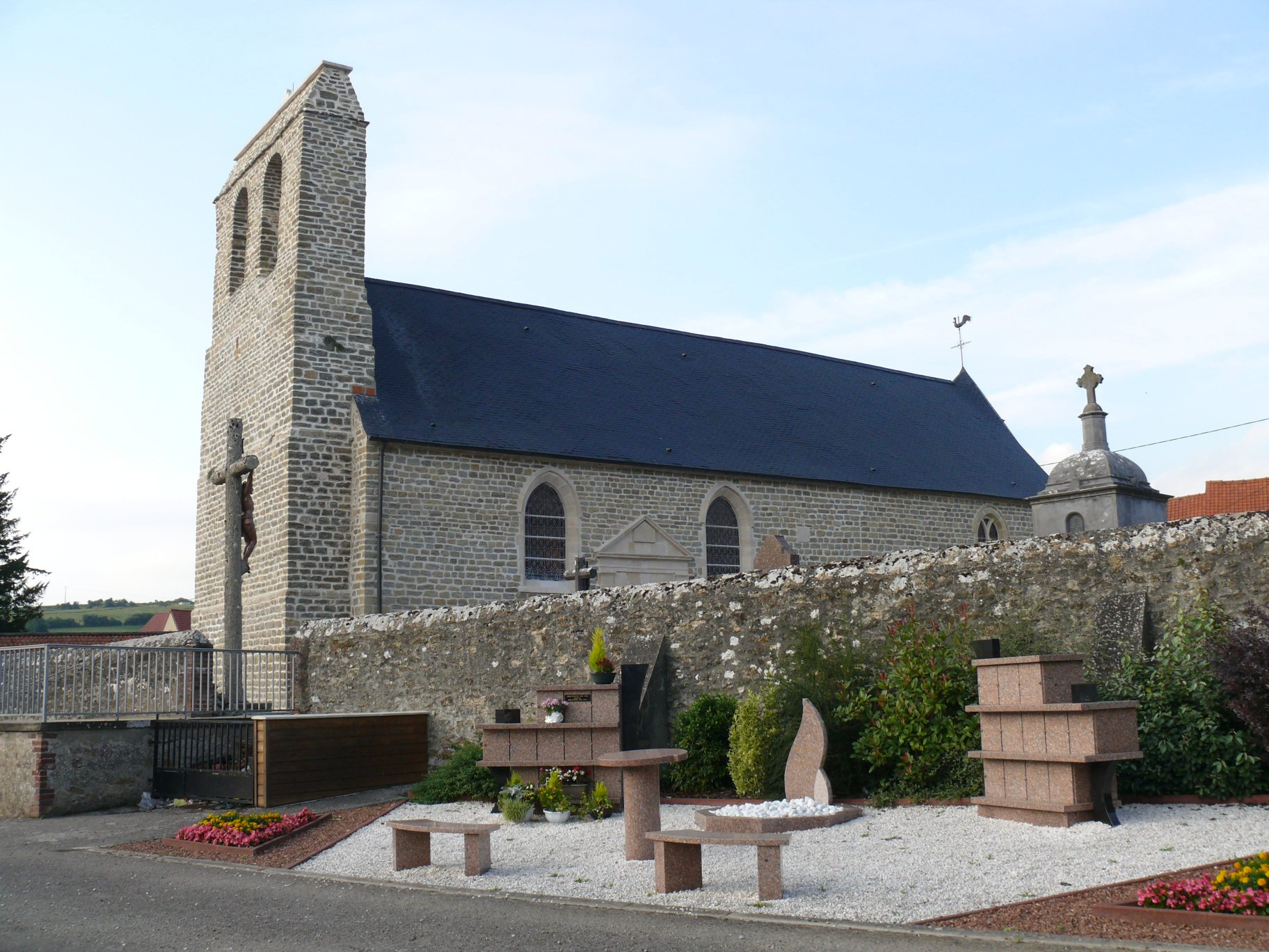 Saints-Apolline-and-Wulmer's church of Isques (Pas-de-Calais, France).